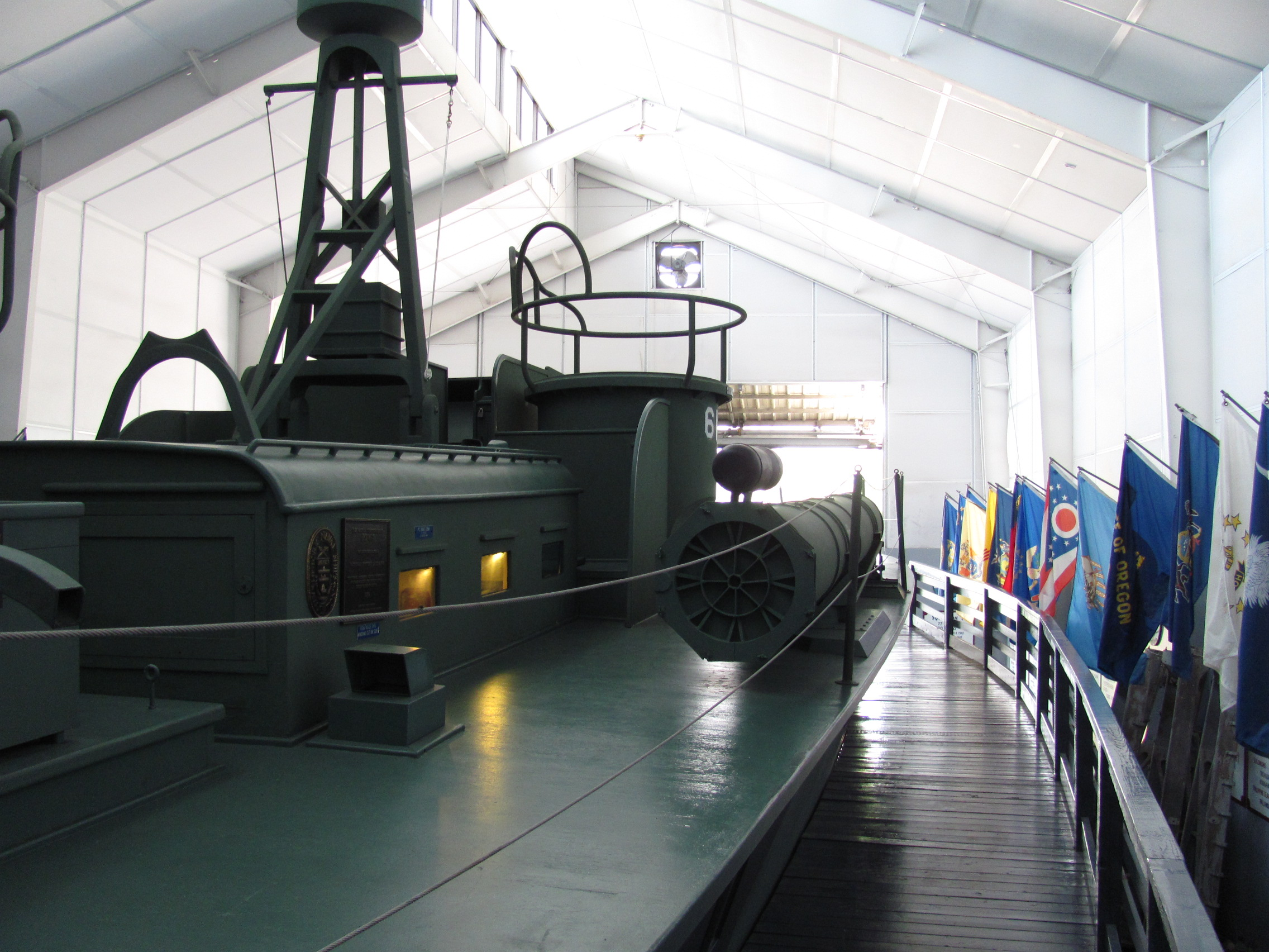 PT Boat Museum at Battleship Cove, Fall River Massachusetts, May 2010